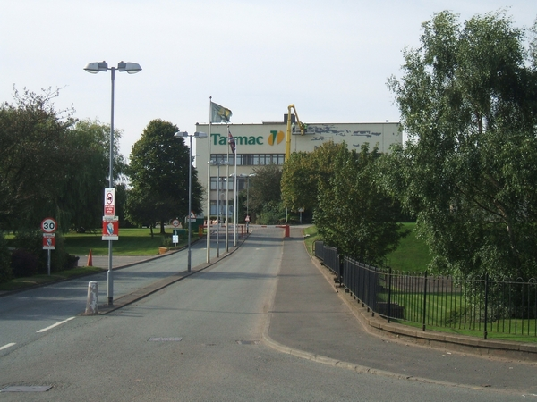 Paint job for Tarmac building These are the original offices and depot in Ettingshall. The main offices moved into central Wolverhampton and to Hilton Hall. Although now split into Tarmac and Carillion they both remain as major employers in the city.